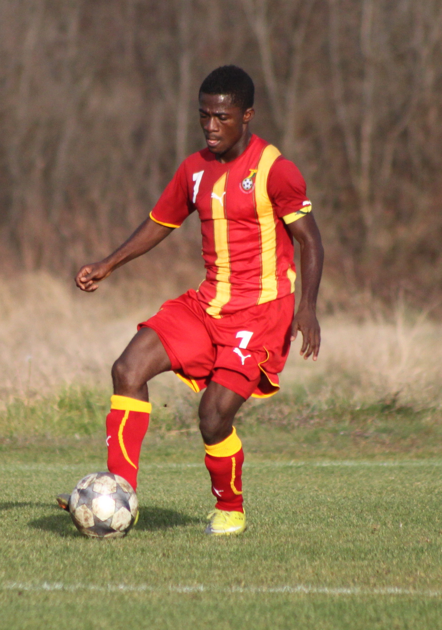 Ebo Andoh - is a Ghanaian football, he currently plays for Accra Hearts of Oak SC, national player (Ghana U-20)